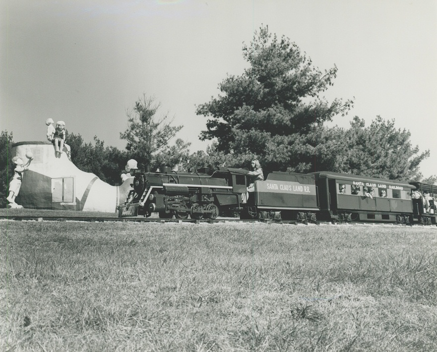 The Santa Claus Land Railroad, which still operates at Holiday World as The Freedom Train.